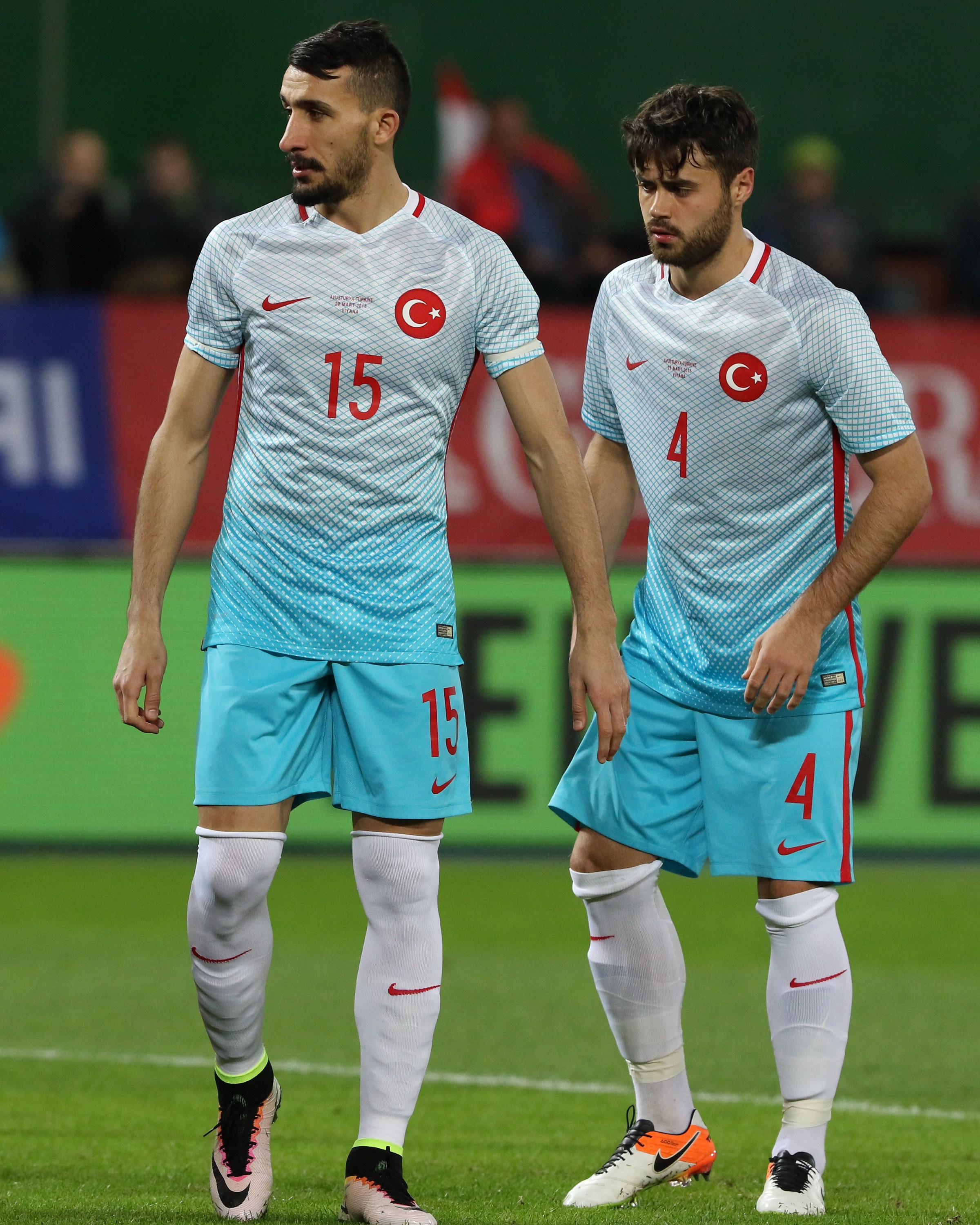 Friendly match – Austria (red shirts) vs. Turkey (blue shirts) 1–2 (1–1) on 2016-03-29 in Ernst-Happel-Stadion, Vienna – The photo shows Mehmet Topal (Fenerbahçe, left) and Ahmet Yılmaz Çalık (Gençlerbirliği, right).